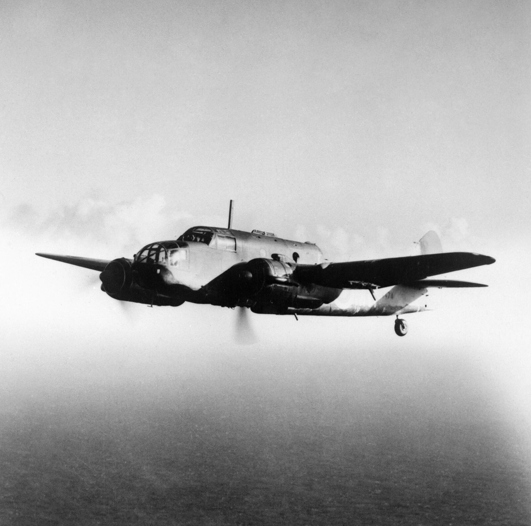 Royal Air Force Coastal Command, 1939-1945. Bristol Beaufort Mark I, L4474, on patrol over the Atlantic Ocean. While serving with No. 217 Squadron RAF, L4474 was lost during a bombing raid on Lorient, France, on 20 December 1940.